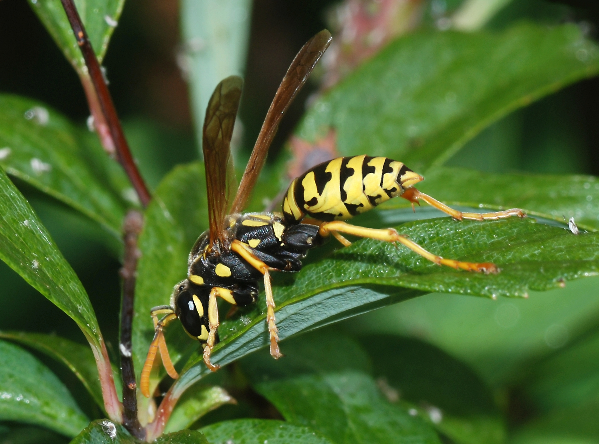 A female Paper Wasp (Polistes gallicus)